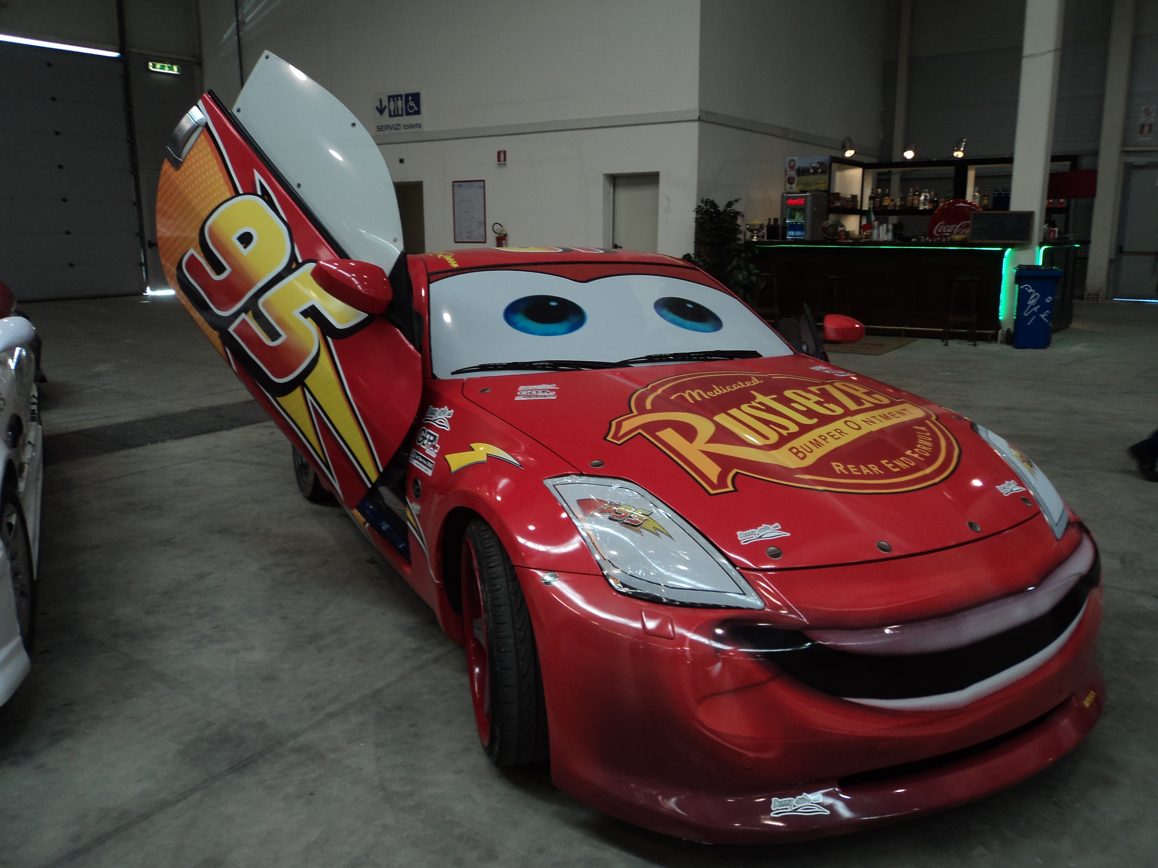 Rome Tuning Show